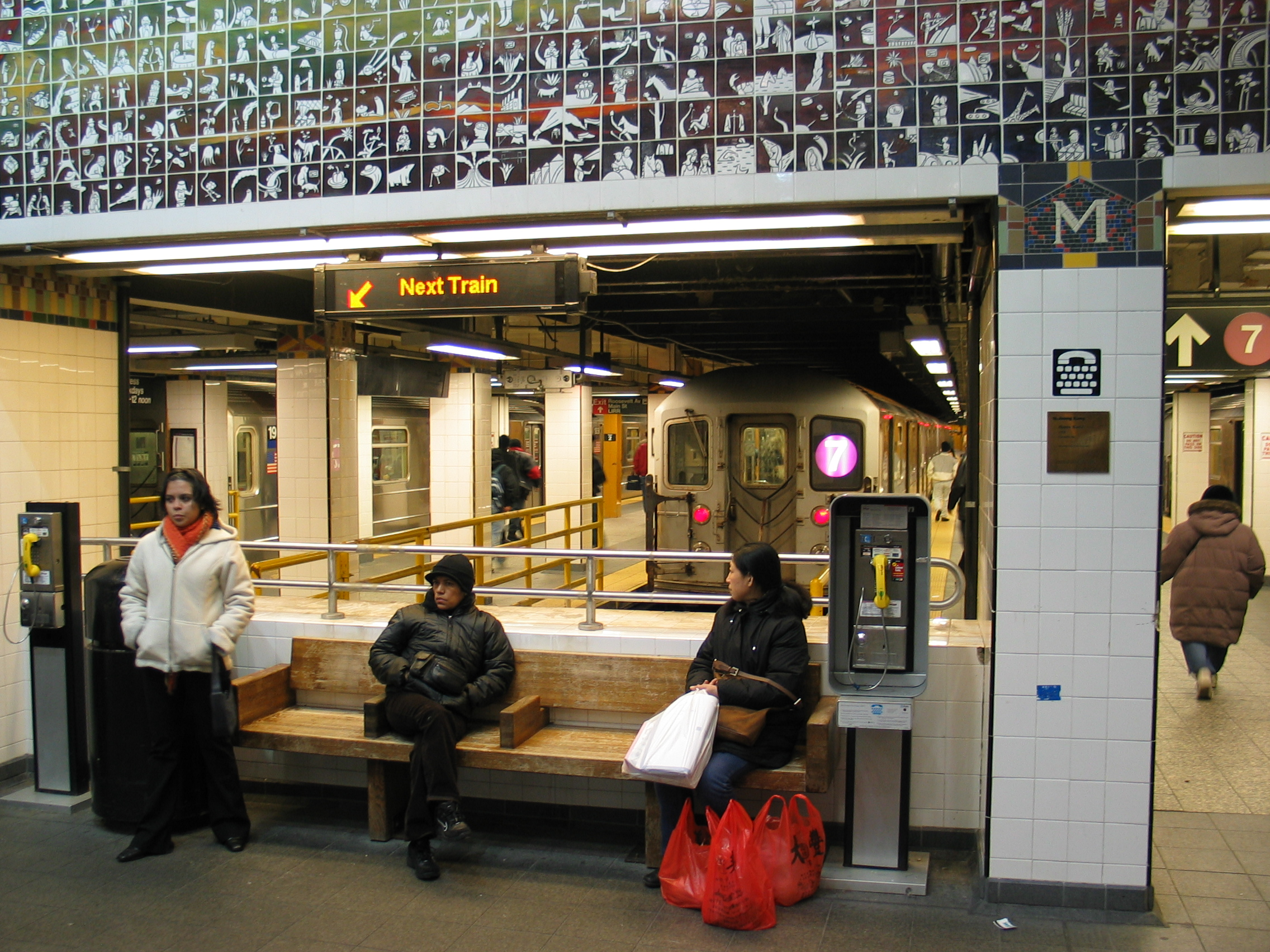 Flushing line terminus at Main Street station Queens, New York